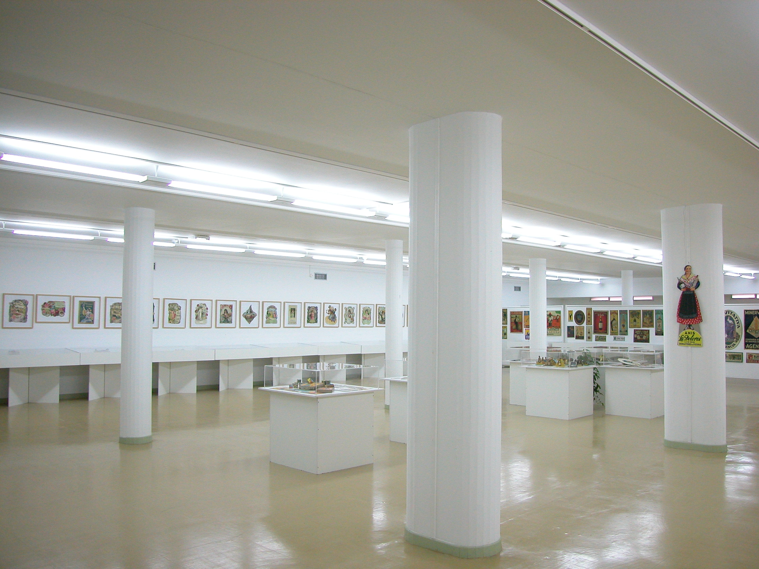 Showroom Library Torrente Ballester